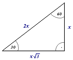 Allegedly a triangle with angles 30, 60, 90. Formulae are correct, but actual proportions are evidently wrong to an experienced naked eye.